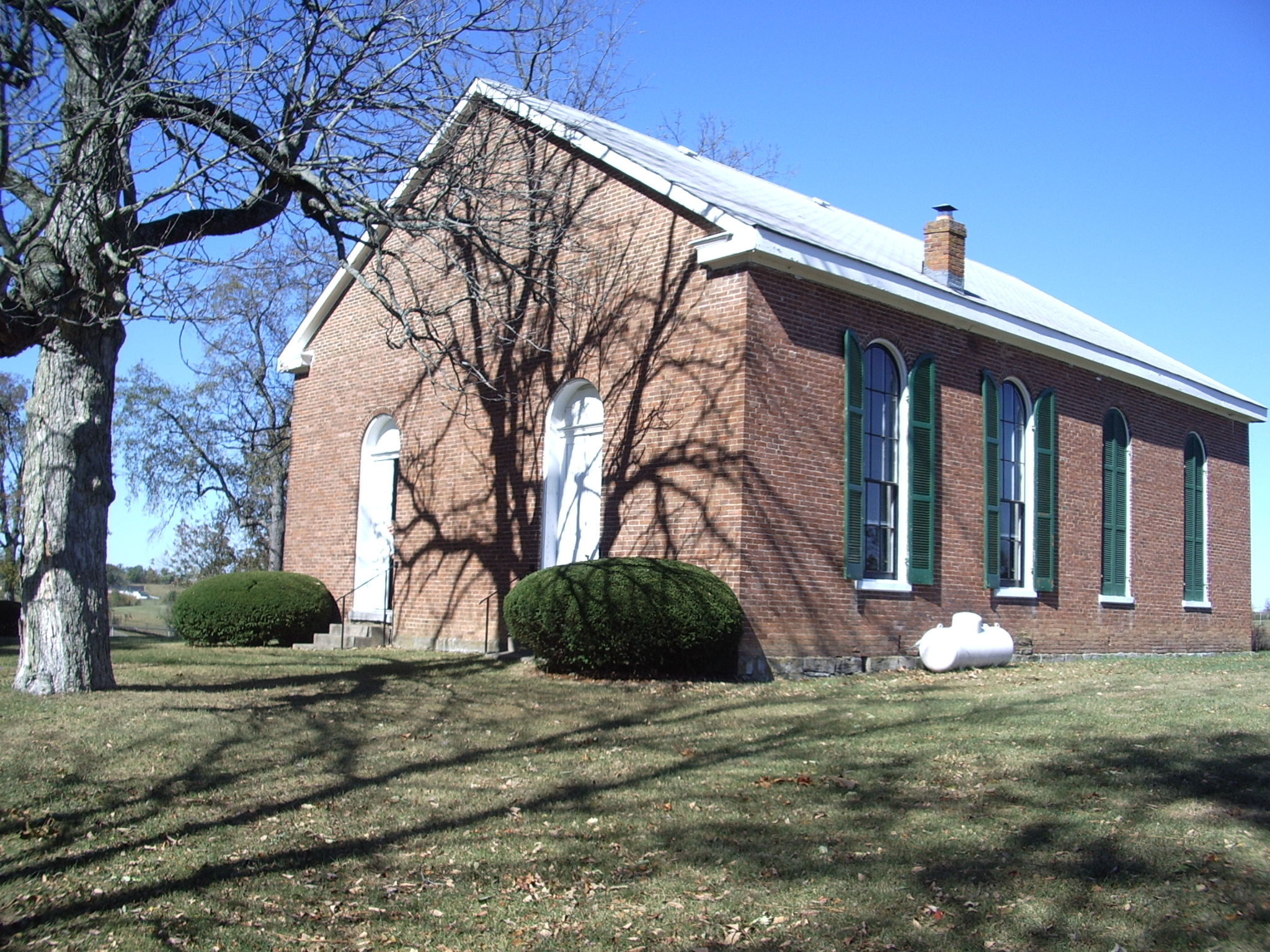 Church started in 1792 by Squire Boone, grand nephew of Daniel Boone. The original building is gone and this building was built in 1830. Elder Edward Reed is the current Moderator and Brother Michael Veirs is Deacon.